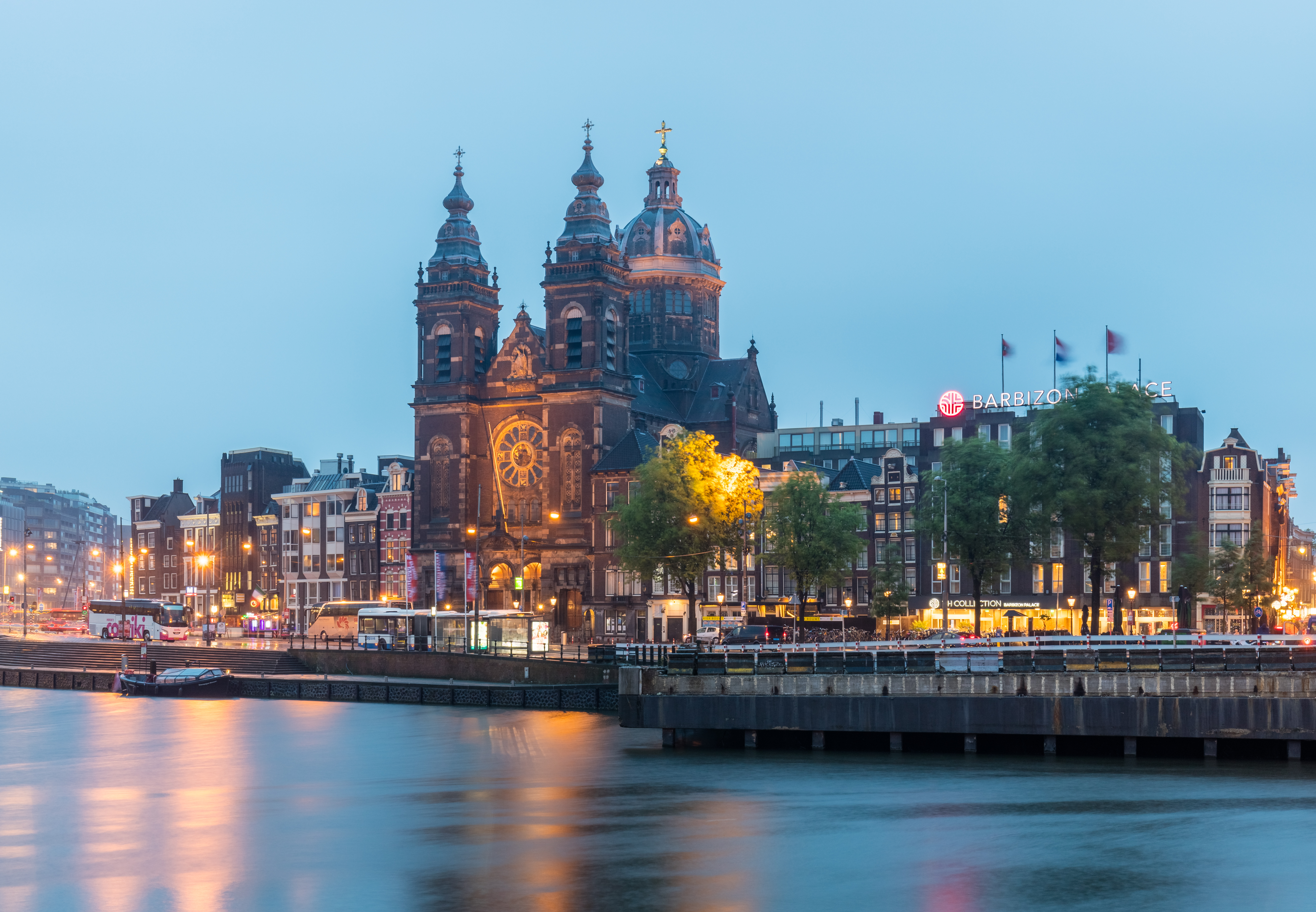 St Nicholas church, Amsterdam, Netherlands